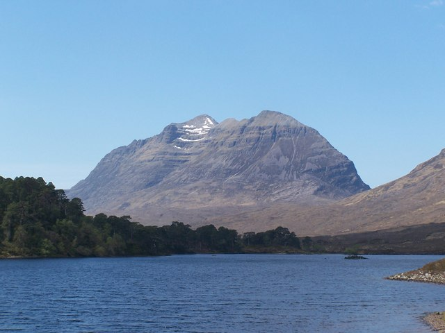 Liathach from Loch Clair May 2006